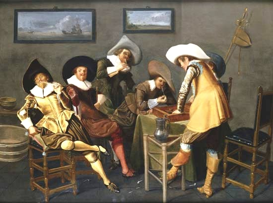 Gentlemen Smoking and Playing Backgammon in an Interior